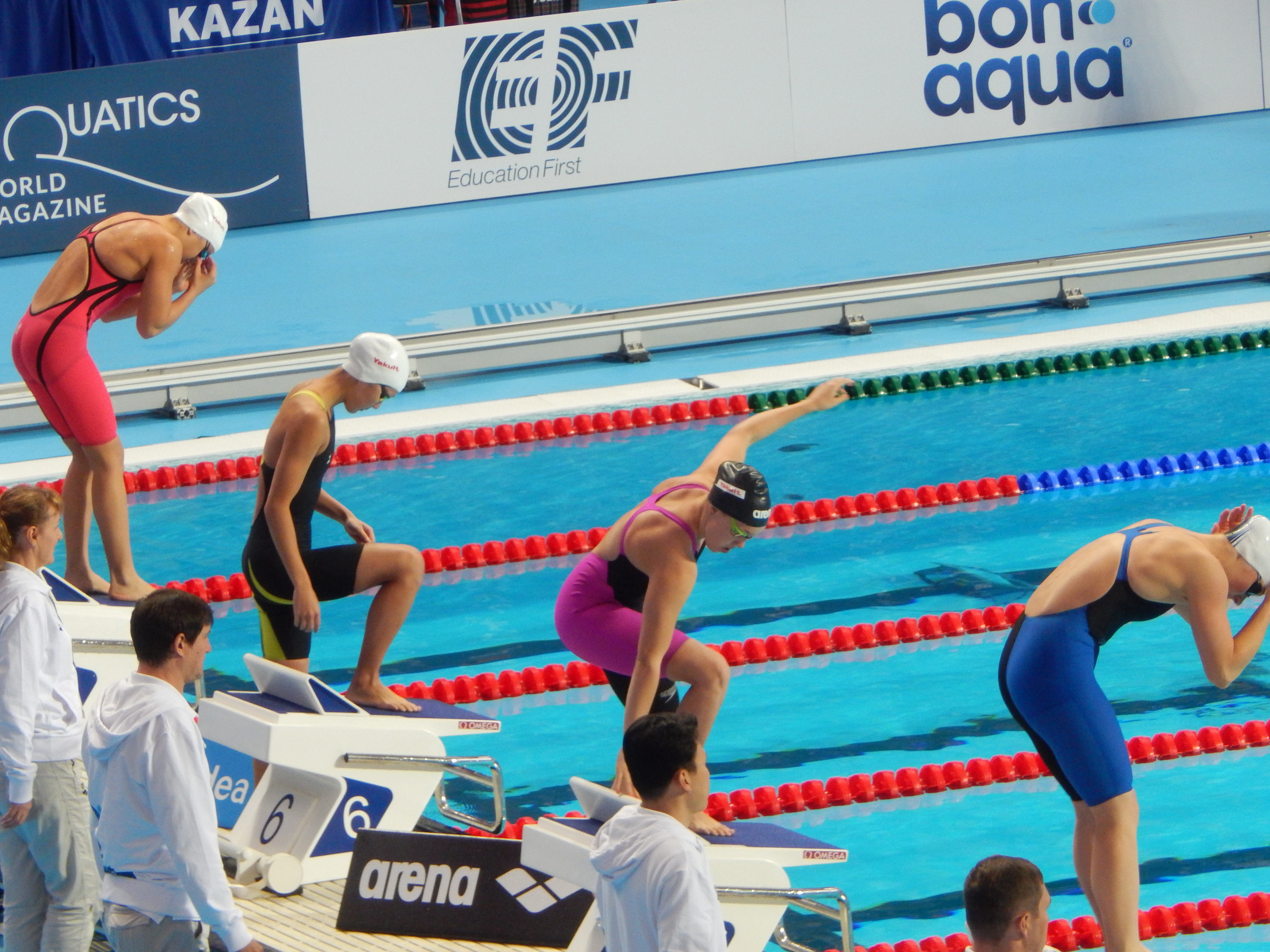 Lane 7: ATEF Mai EGY Lane 6: KONG Yvette Man Yi HKG Lane 5: TALANOVA Daria KGZ Lane 4: LEDEREROVA Lucia SVK